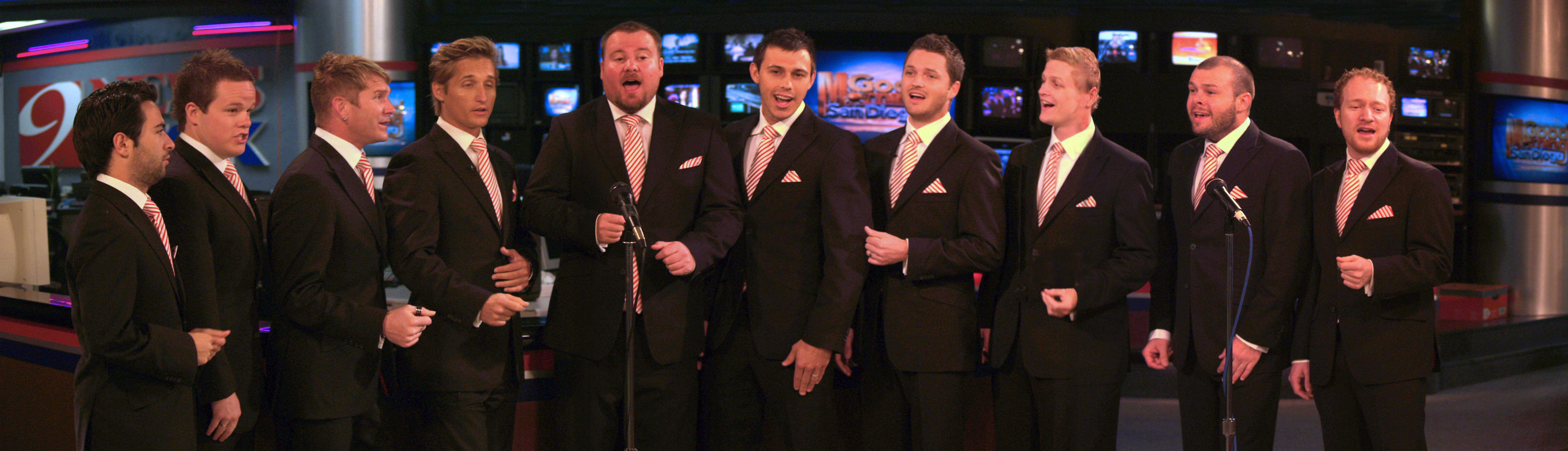 The Ten Tenors while performing at KUSI-TV in San Diego. Please acknowledge "Phil Konstantin" as the creator of this photograph.